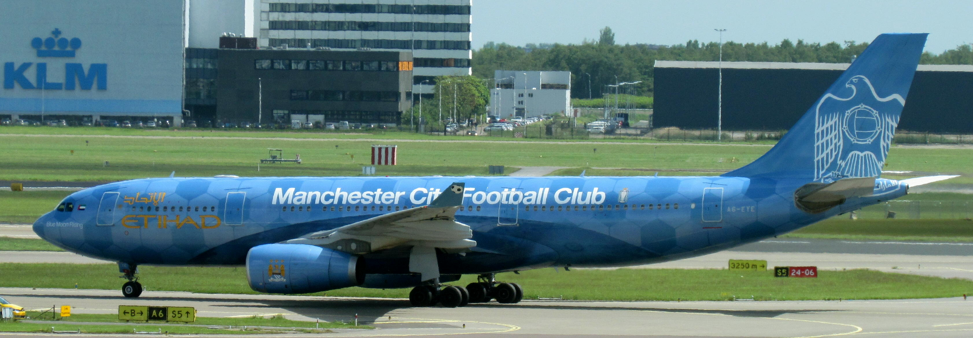 Etihad - Manchester City